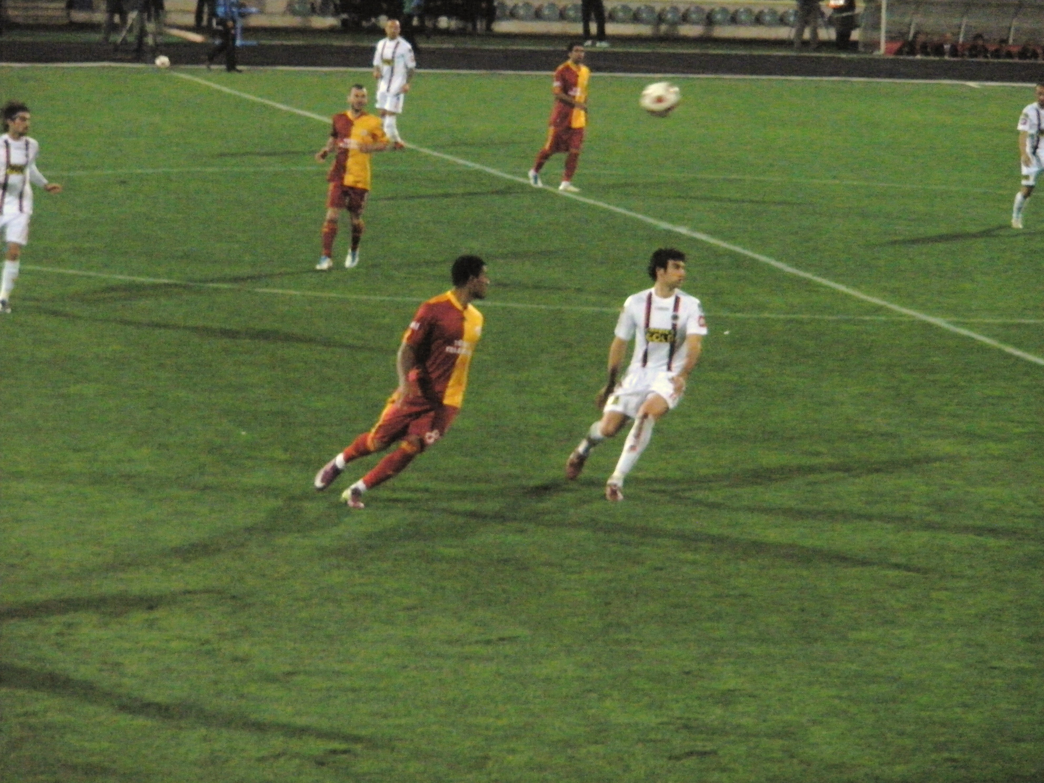 Turkish Süper Lig Gençlerbirliği 2-3 Galatasaray match